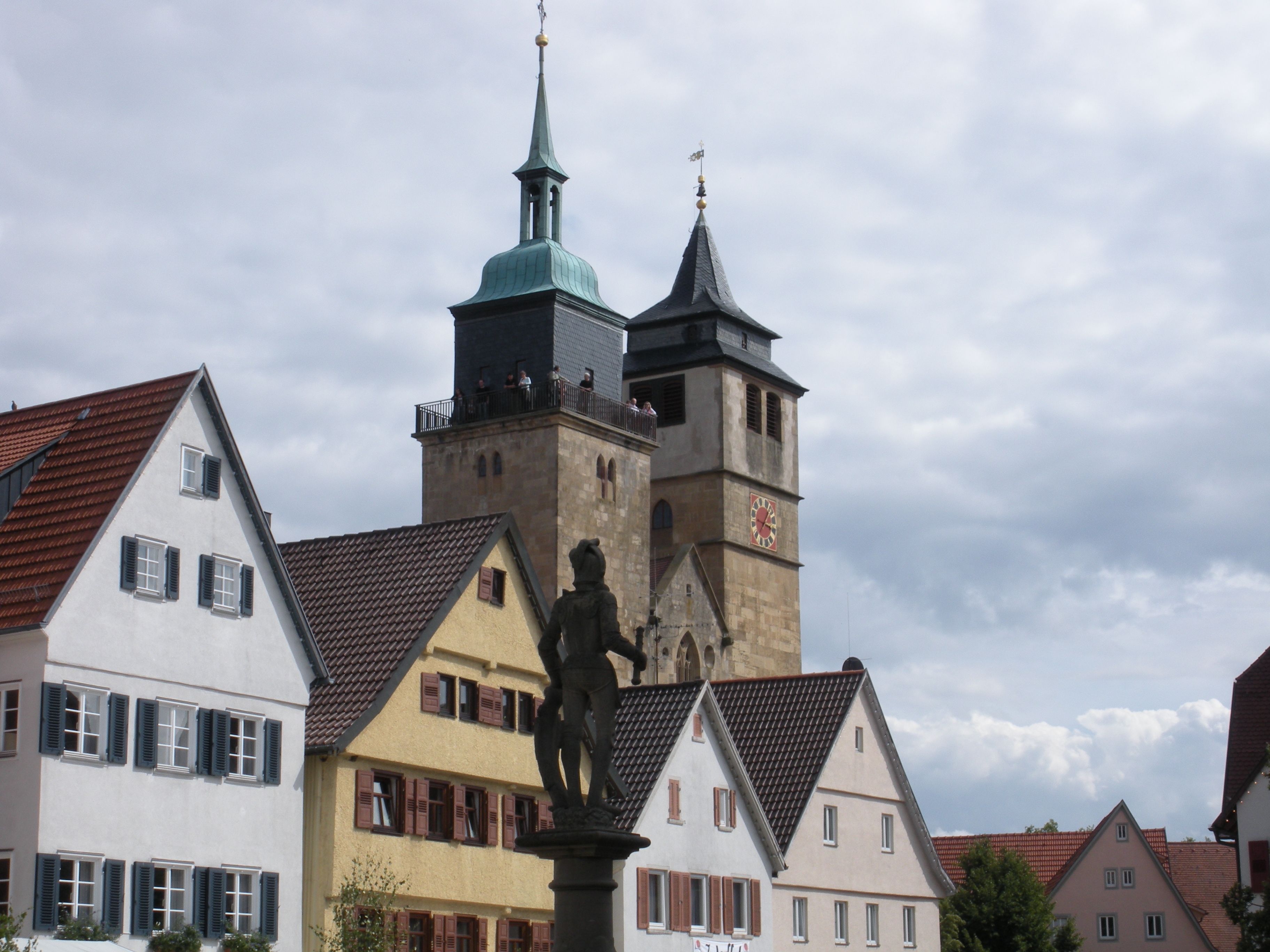 Protestant Church of Bartholomae in Markgröningen